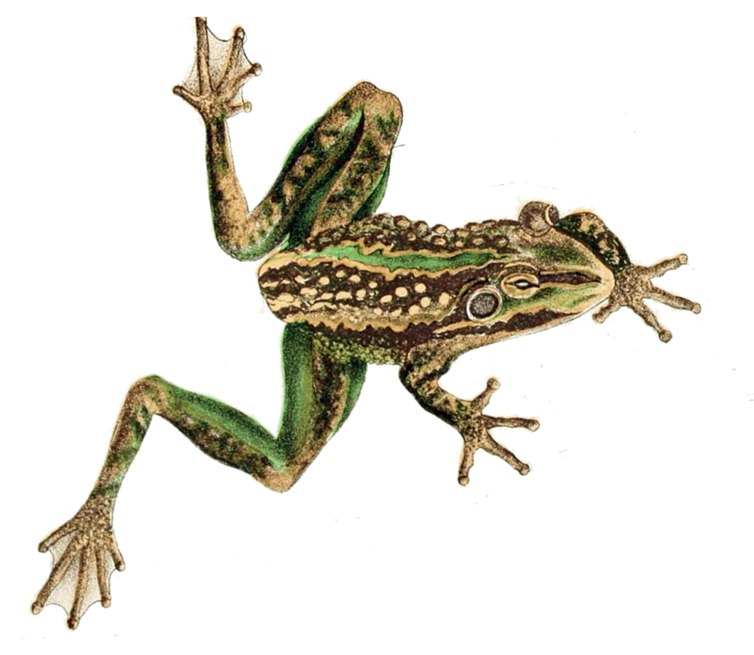 outcut of Litoria aurea development.jpg Litoria aurea development